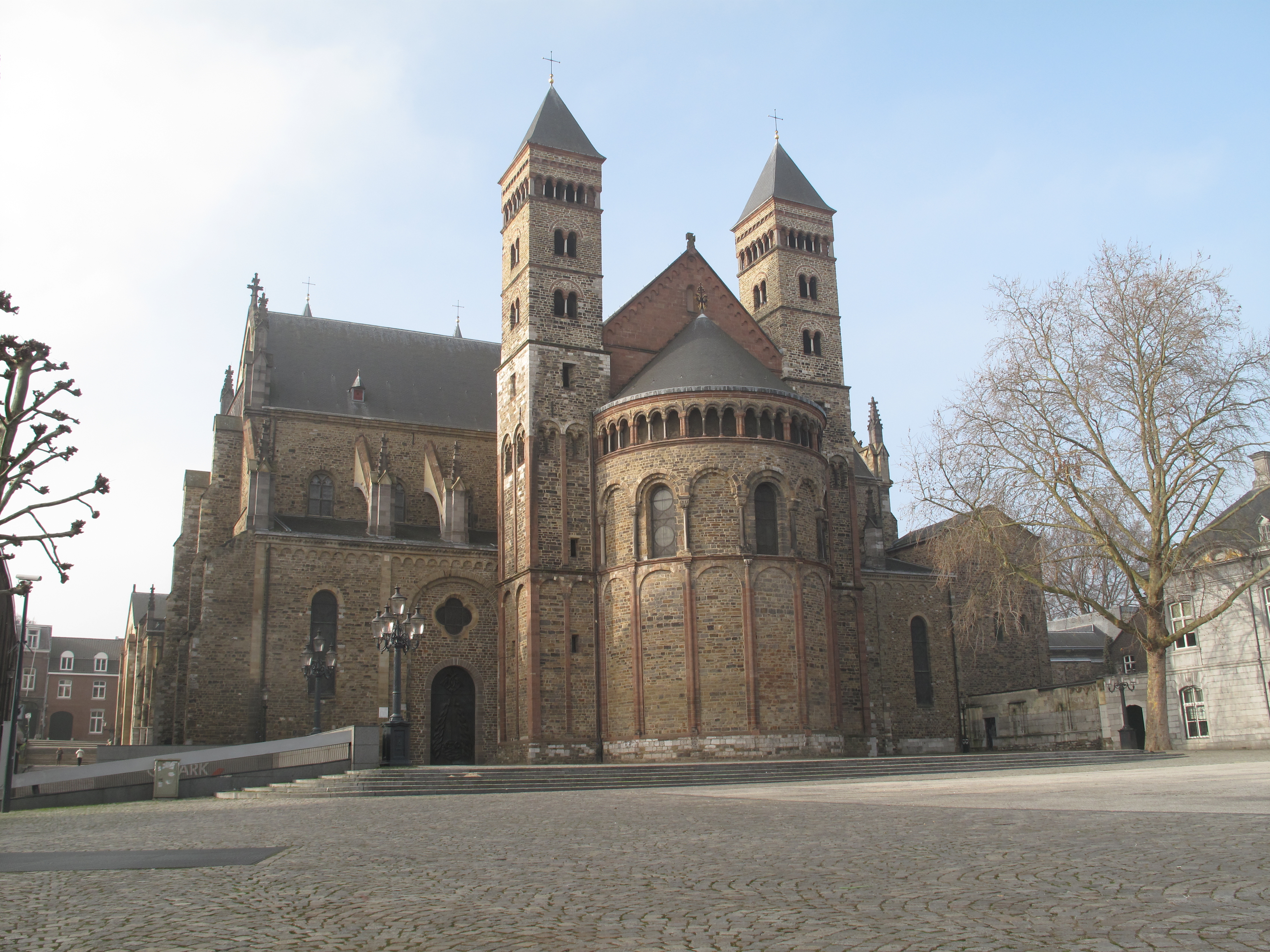 Maastricht, church: de Sint Servaasbasiliek at the square: het Vrijhof